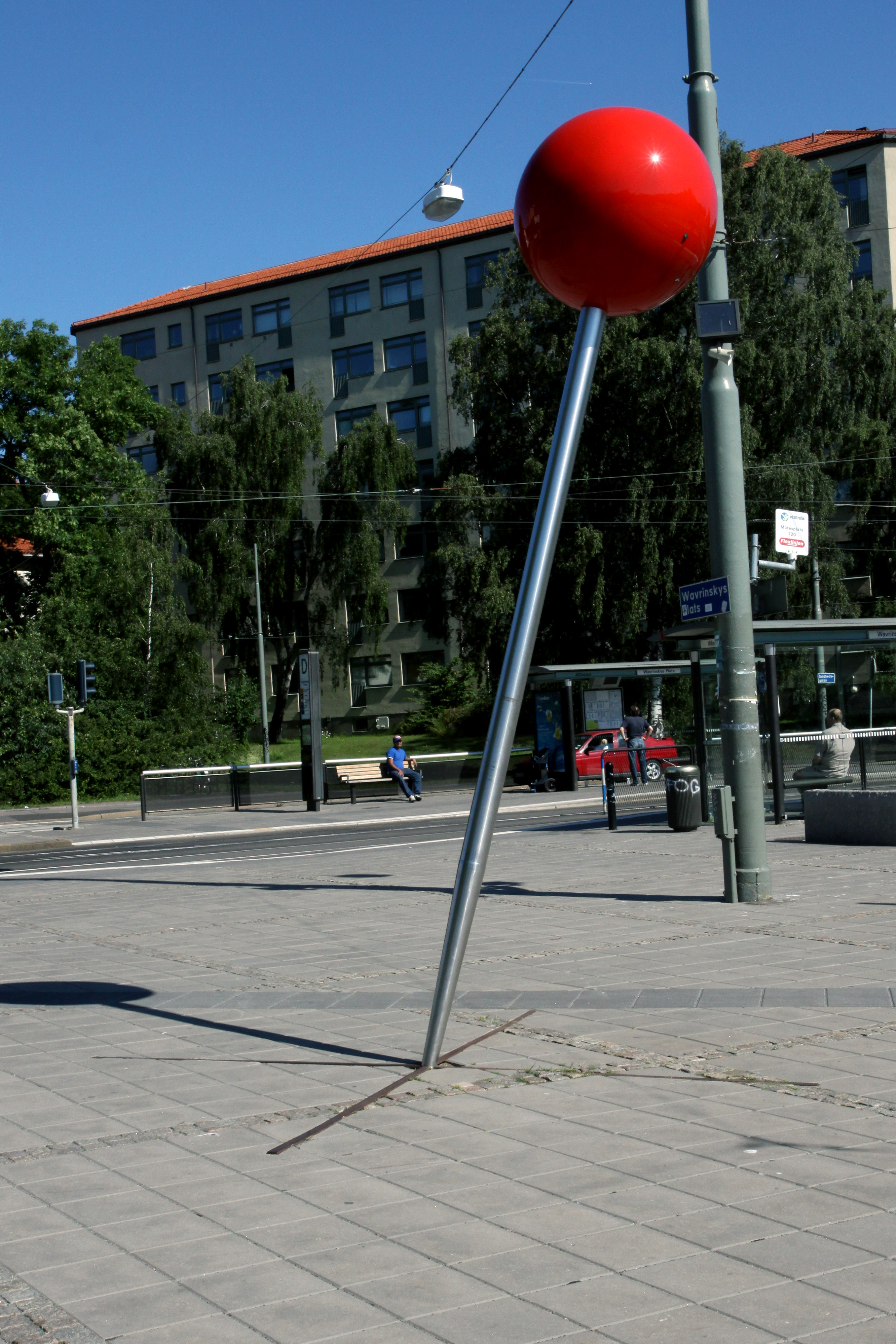 The statue "Här" (en: here) by Ebba Matz at Wavrinskys in Gothenburg, Sweden